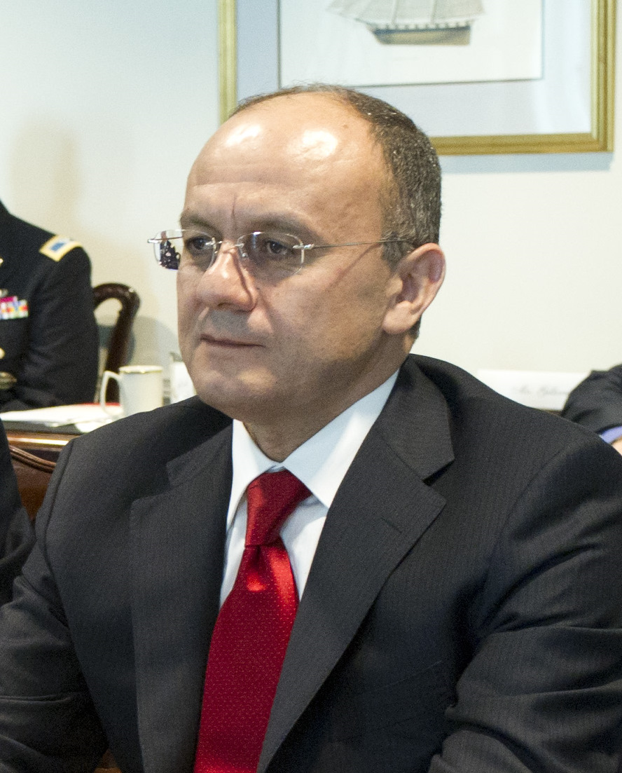 Secretary of Defense Leon E. Panetta hosts the Minister of Defense of Armenia, Seyran Ohanyan, at the Pentagon on March 23, 2012. Secretary Panetta and Mr. Ohanyan met to discuss bilateral defense issues.(DoD photo by Erin A. Kirk-Cuomo)(Released)